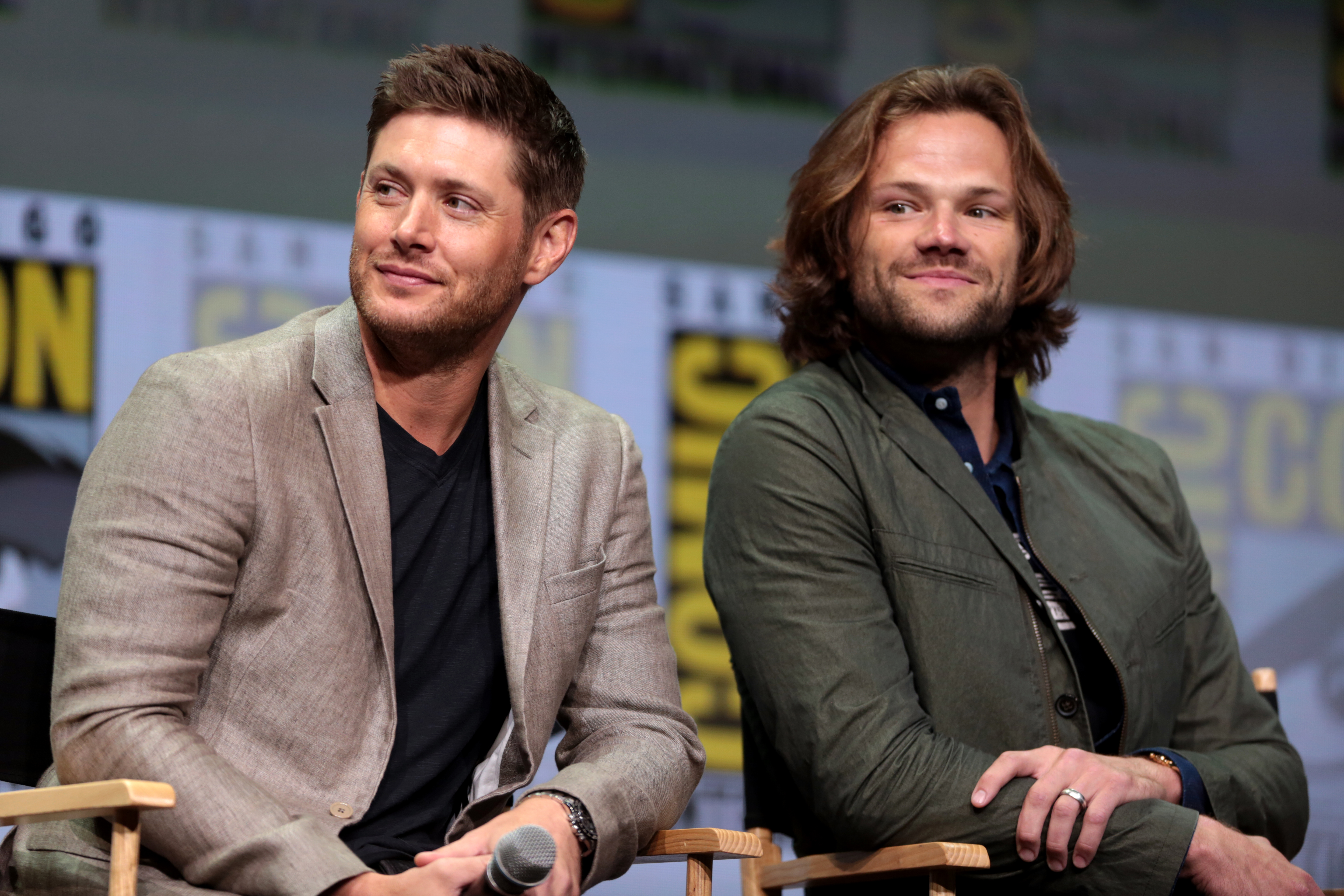 Jensen Ackles and Jared Padalecki speaking at the 2017 San Diego Comic Con International, for "Supernatural", at the San Diego Convention Center in San Diego, California.